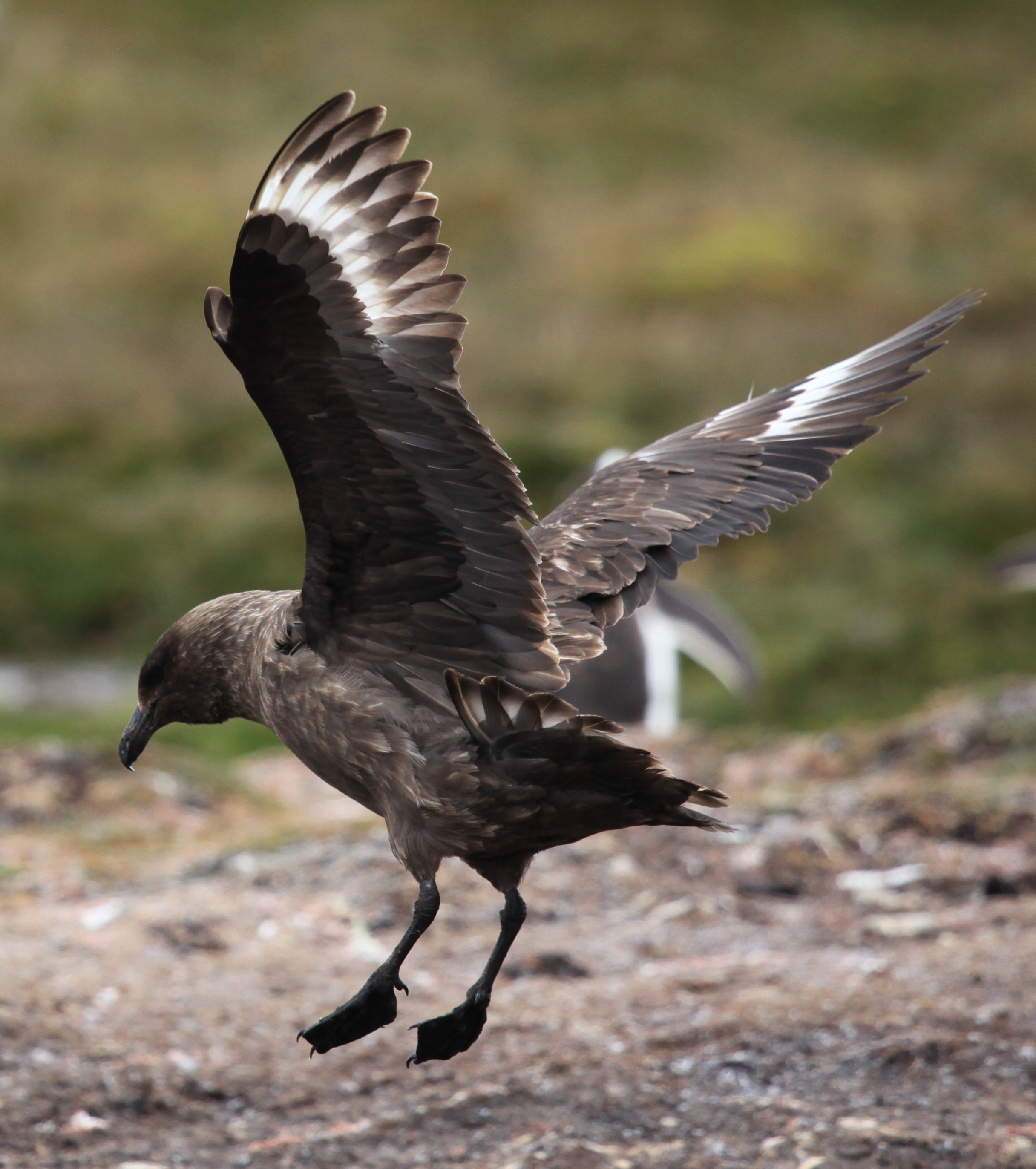 A Brown Skua landing near a colony of penguins at Godthul, South Georgia, British Overseas Territories, UK.